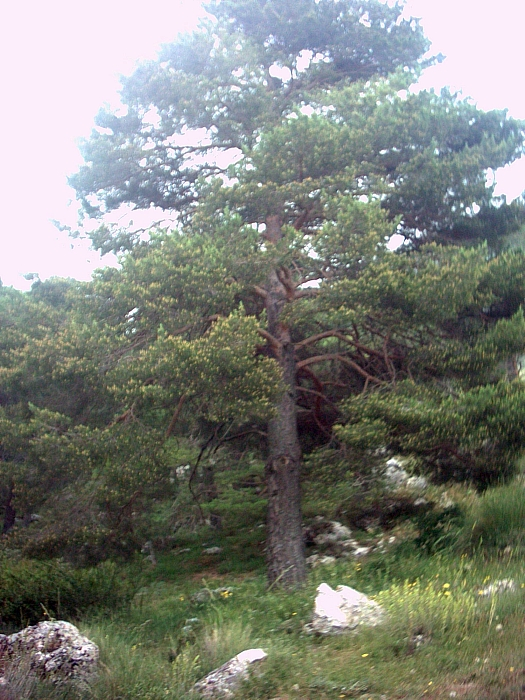 Pinus sylvestris subsp. nevadensis, in Sierra de la Alfaguara, into Parque Natural de la Sierra de Huétor, Granada, Spain.